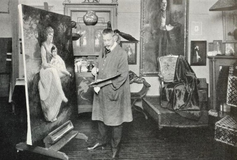 Arvid Nyholm in his studio in Chicago